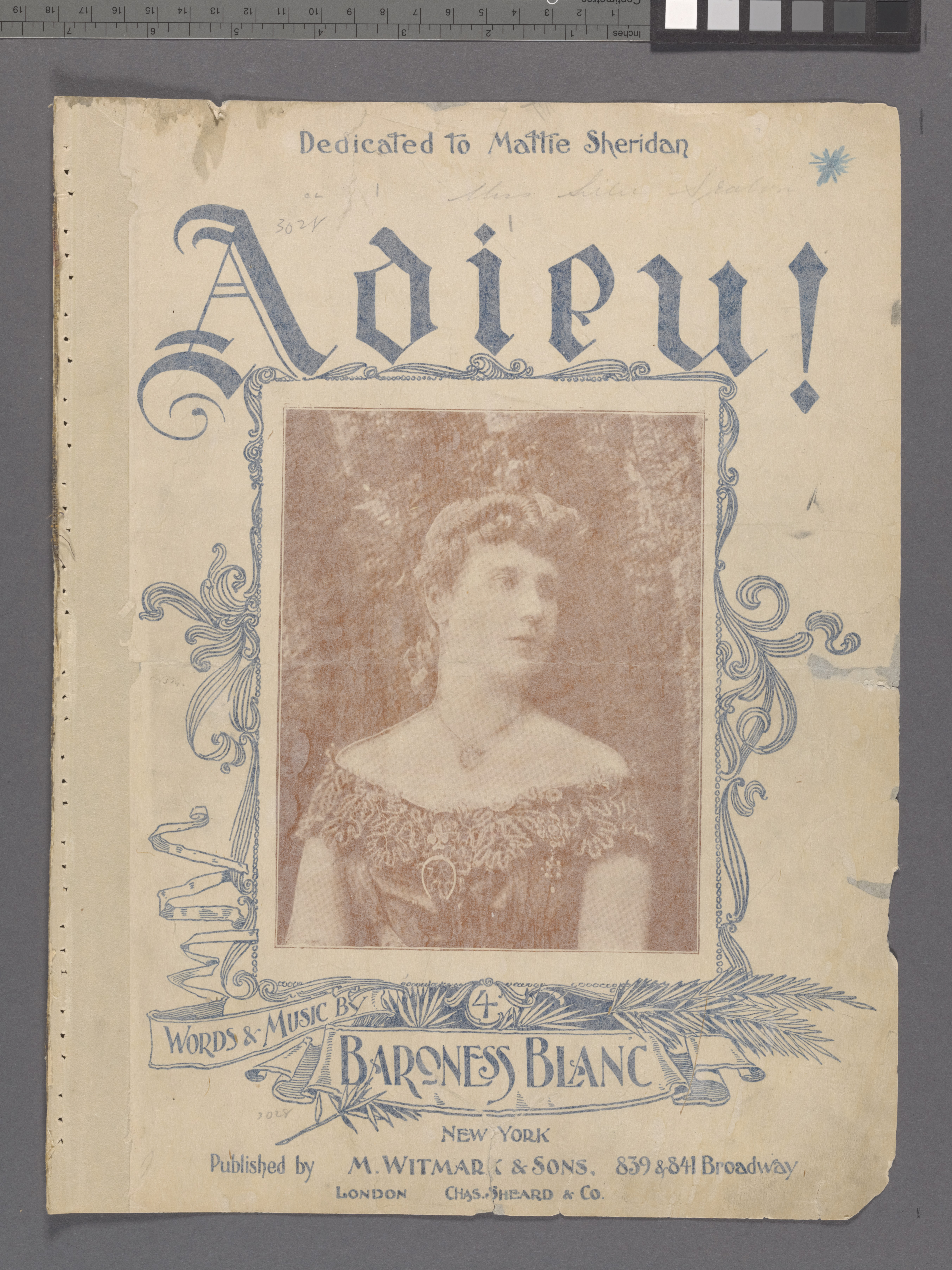 Cover contains photograph of Baroness Blanc. Statement of responsibility : words and music by Baroness Blanc.